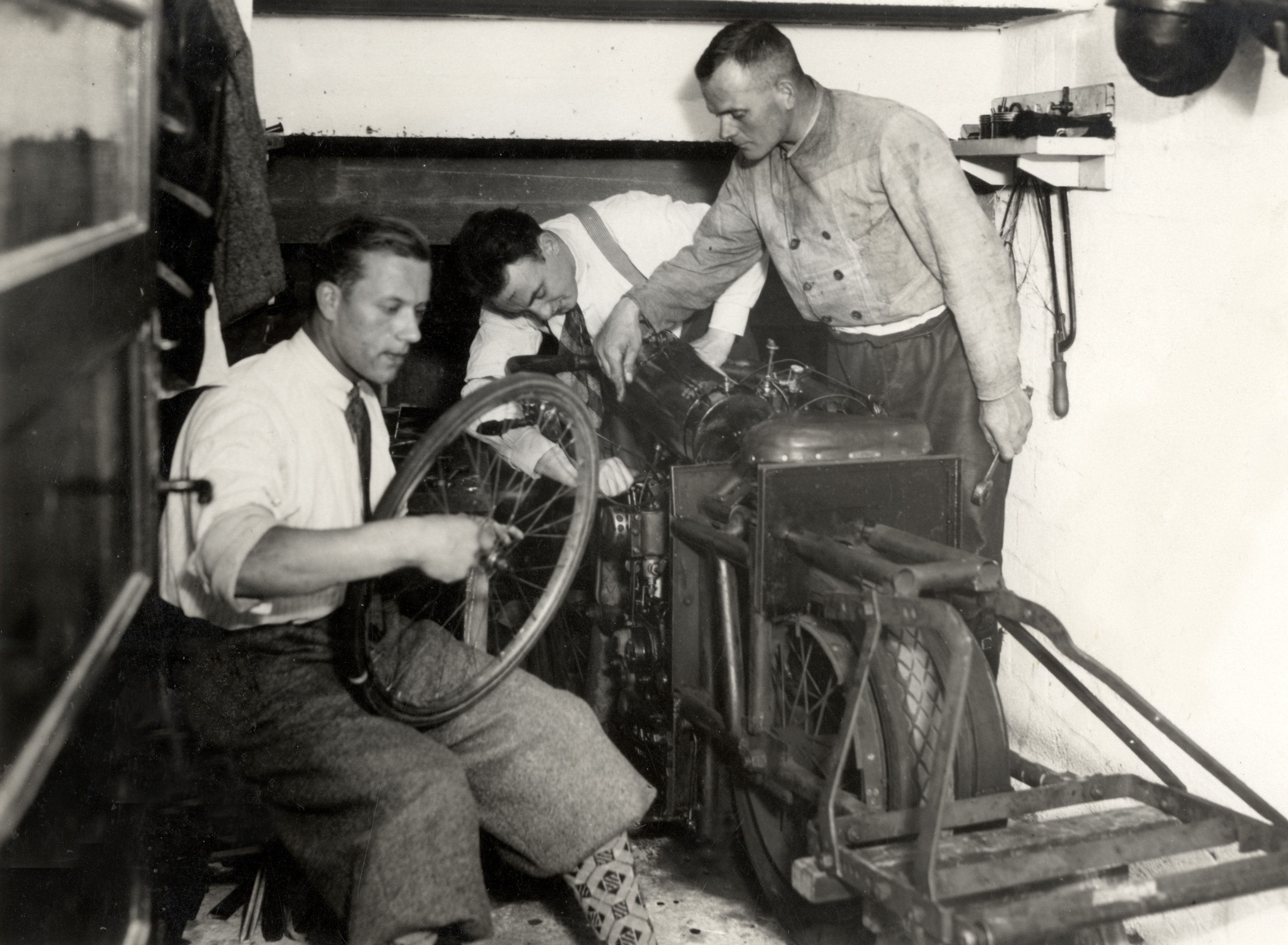 Bertus De Graaf and his pacemaker Frits Wiersma at the Dutch track cycling championships, Olympic Stadium Amsterdam 1931.